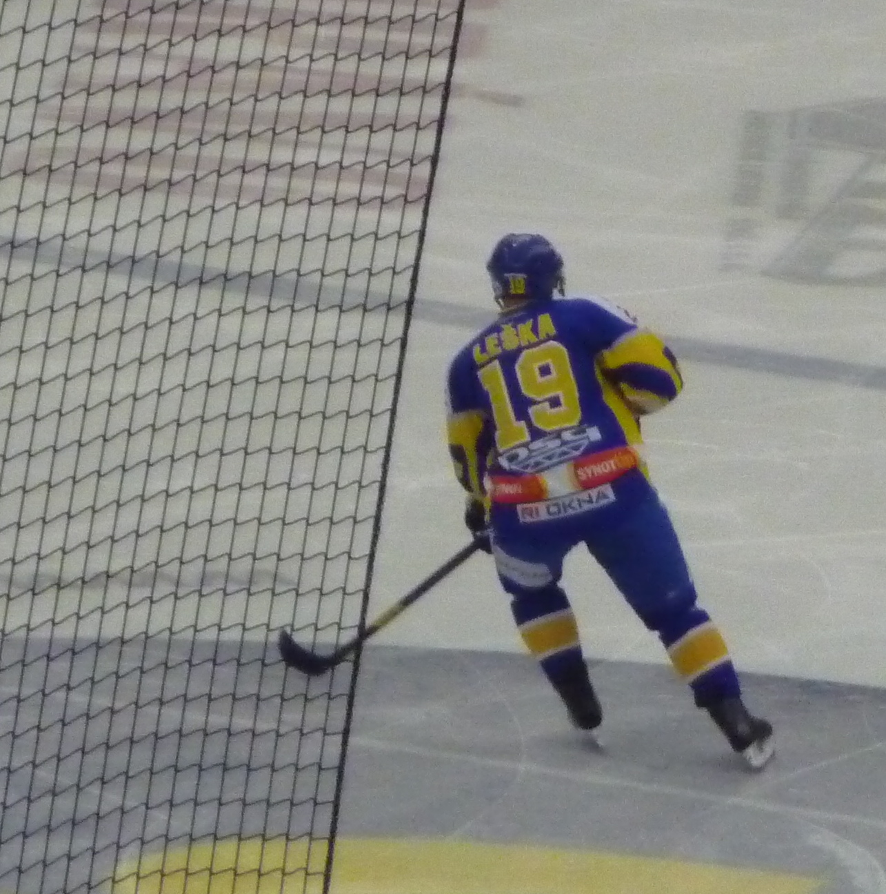 Petr Leška, PSG Zlín v HC Sparta Praha -10 -5 -3 -2 ◄ ► +2 +3 +5 +10